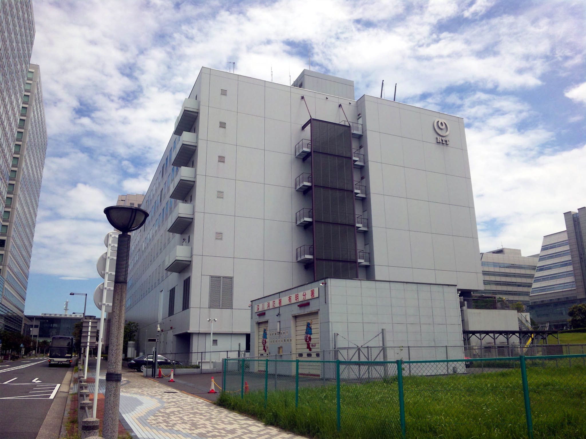 NTT EAST ARIAKE Center Buildhing